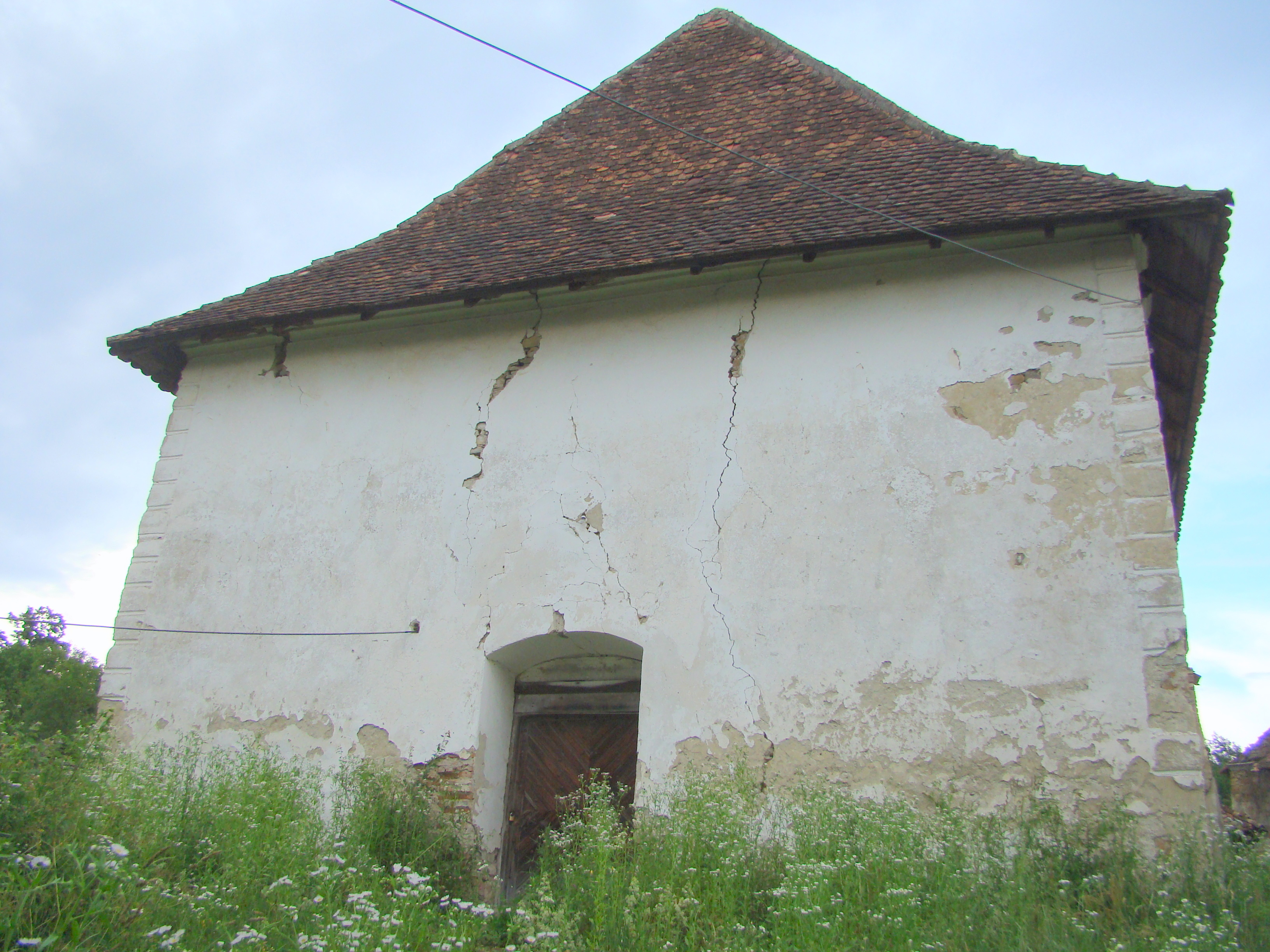 Fortified church in Cobor, Braşov County, Romania